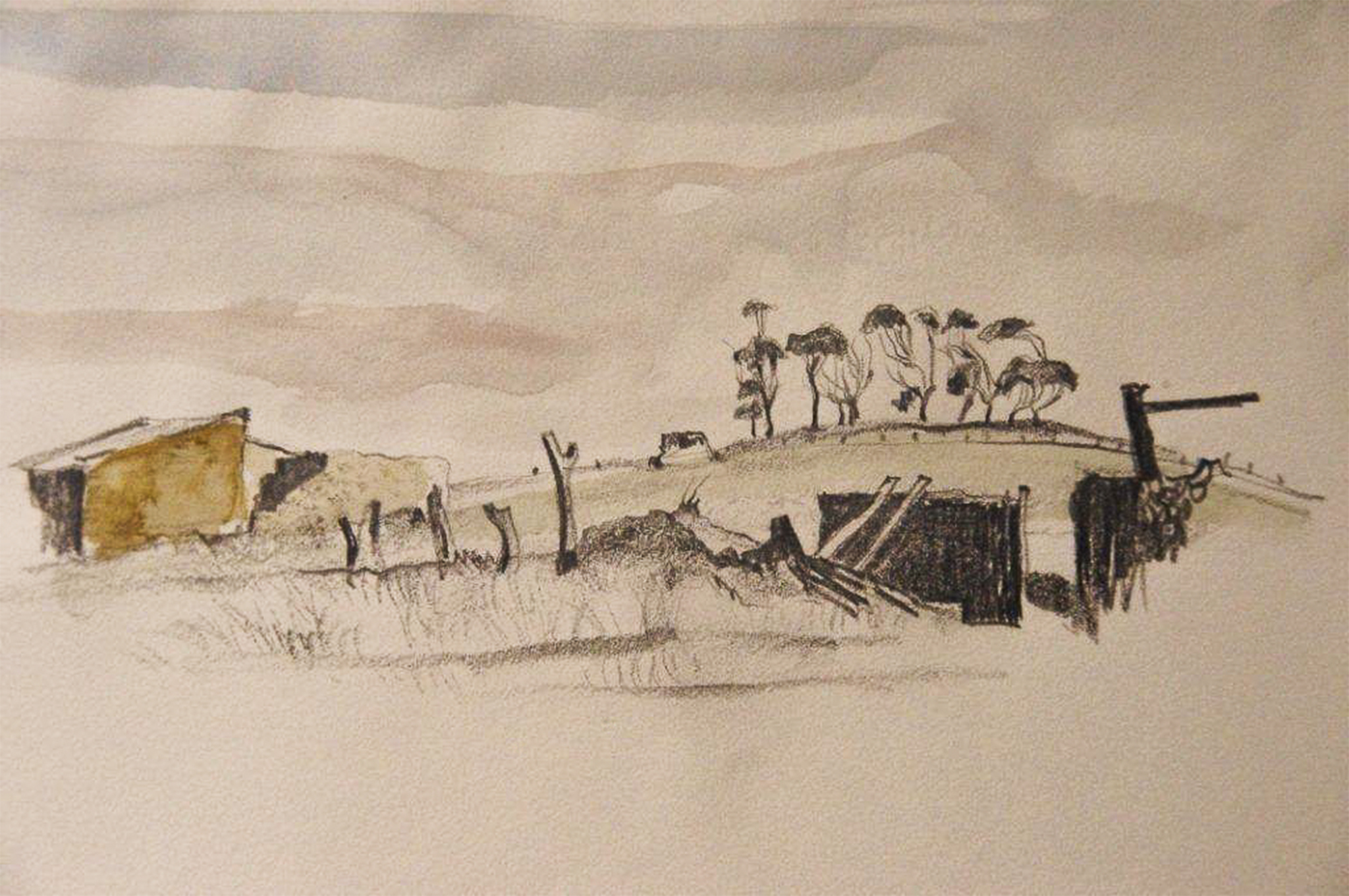 Landscape with hay and shed by Ian Sprague; photographed in a private collection at Enfield Victoria